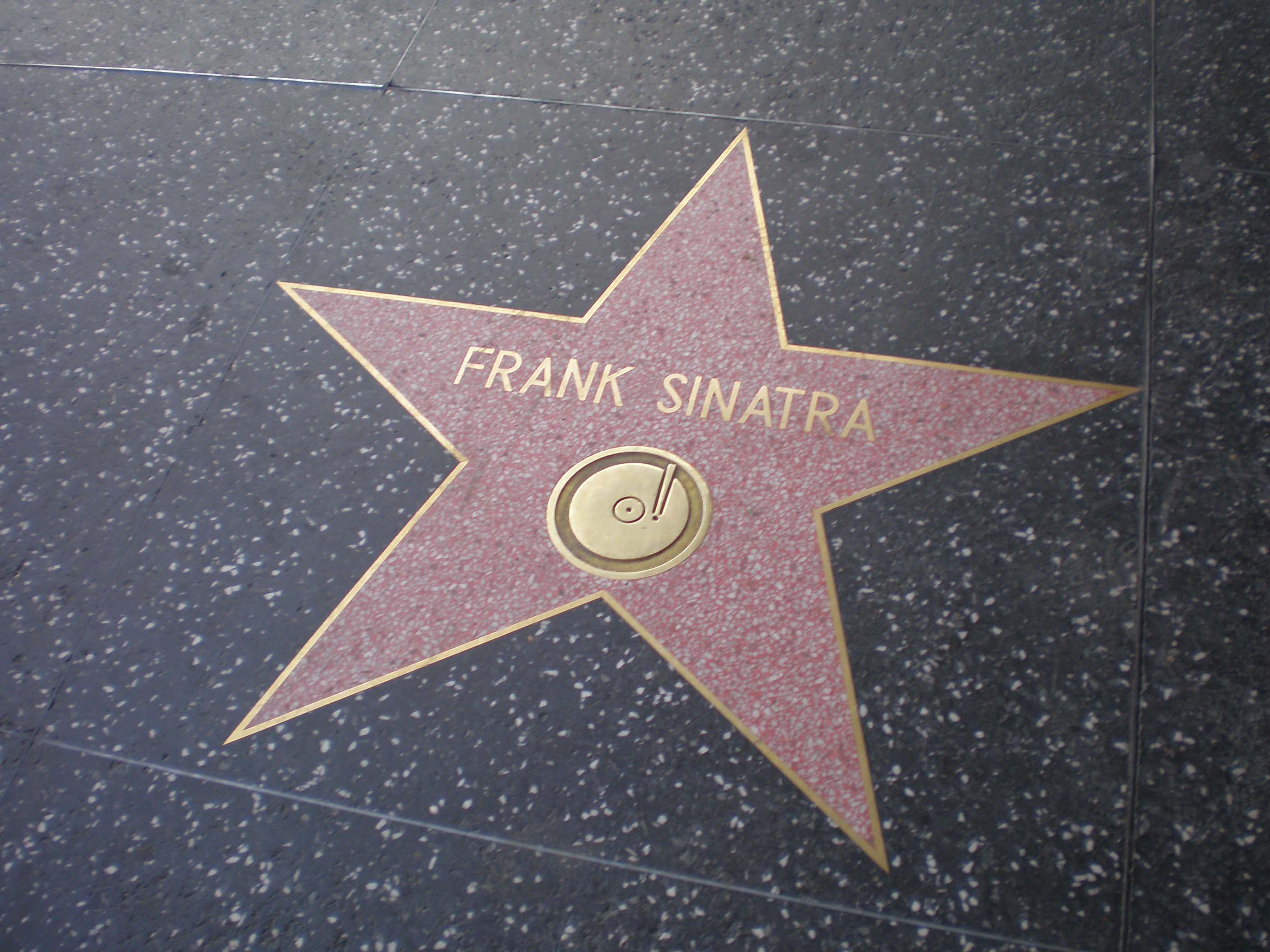 Frank Sinatra's star on the Hollywood Walk of Fame, taken by me.